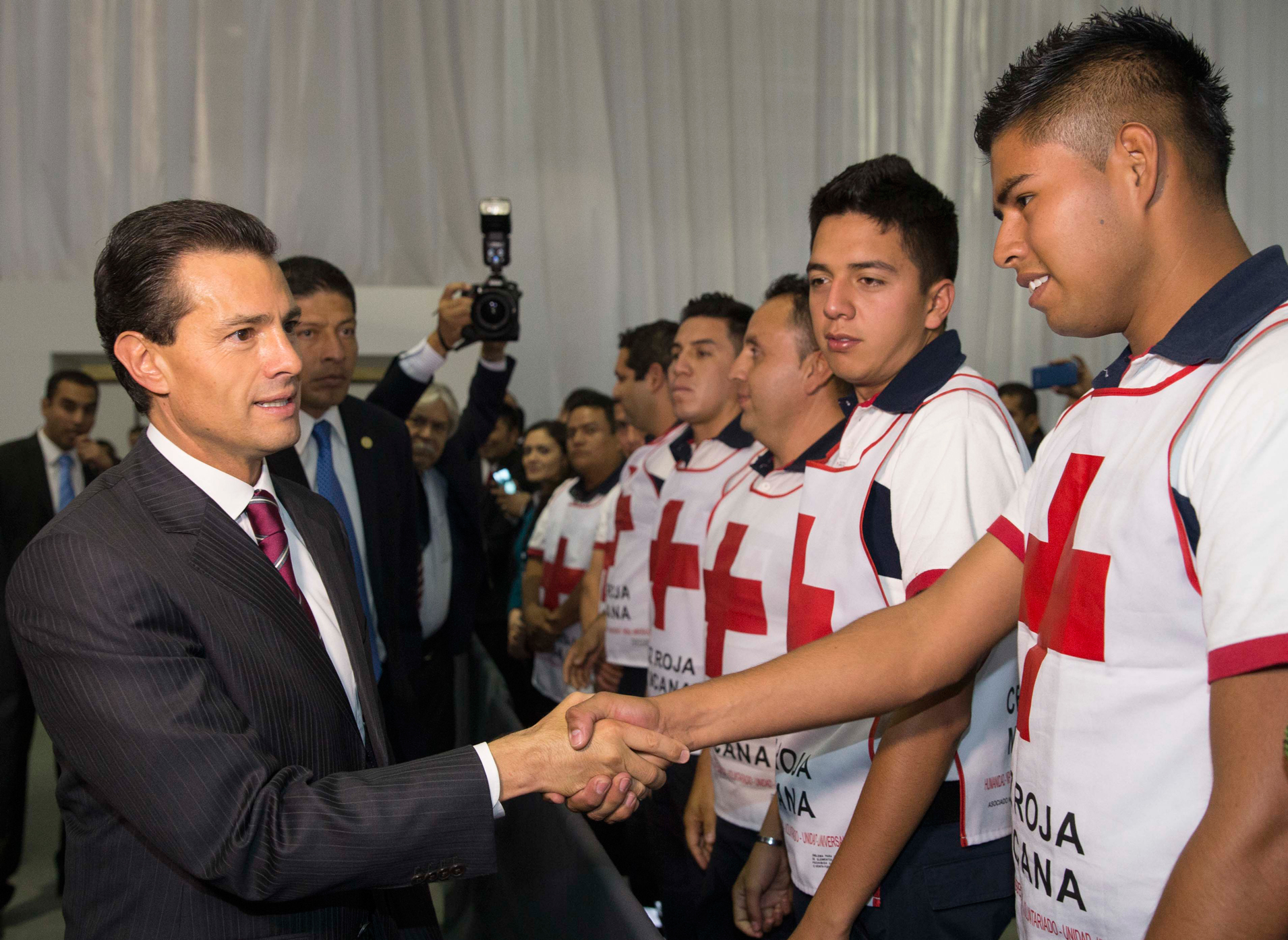 Sesión Ordinaria del Consejo Nacional de Protección Civil